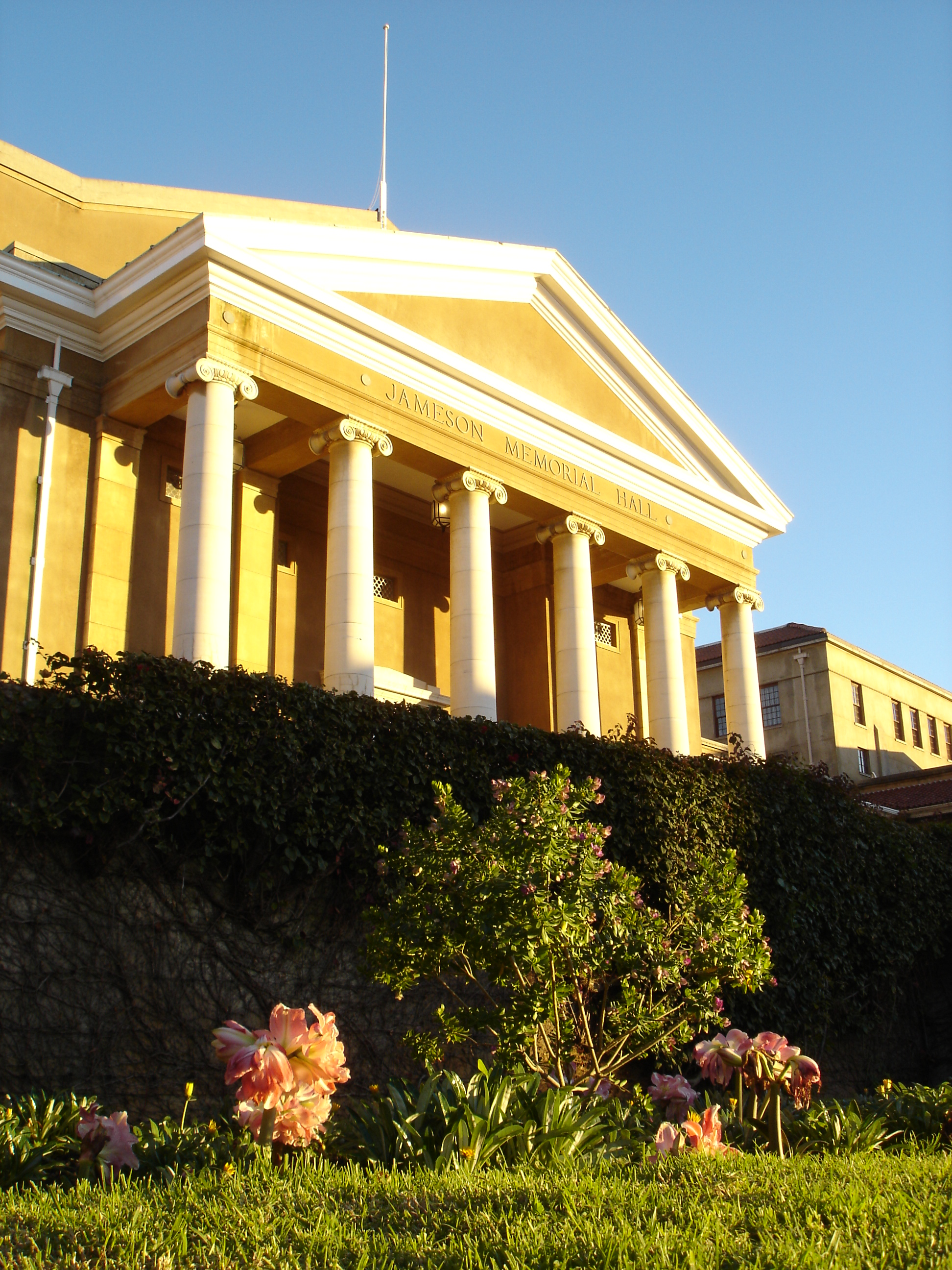 Jameson Hall, the most famous building of University of Cape Town main campus